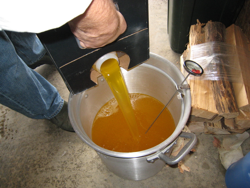 4 gallons of peanut oil!